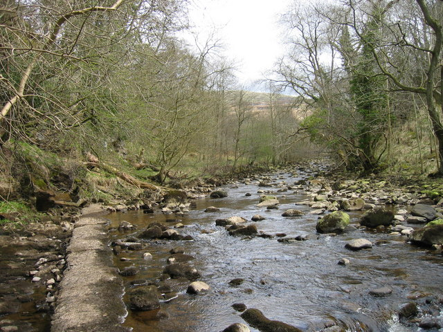 River Gelt Happy days remembered when I camped here with 22nd Senior Scout Troop from South Shields in about 1962 . It rained one night and the river rose dramatically and this causeway was under several feet of water. An August to remember ----- we had hail later in the week.